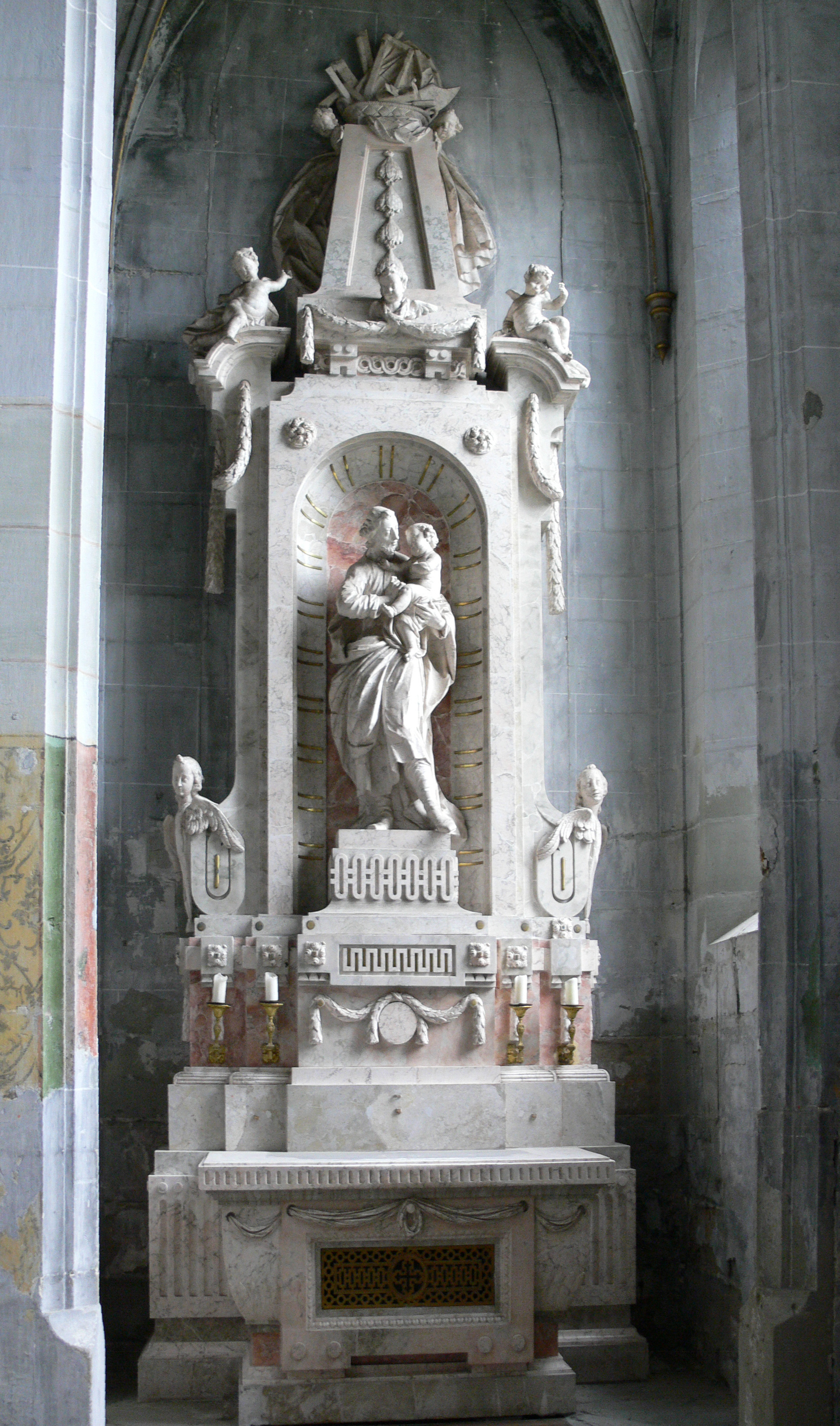 Description: Josephsaltar Source: User:Saberhagen Location: Salemer Münster, Salem (Baden), Germany Source: own photograph by uploader